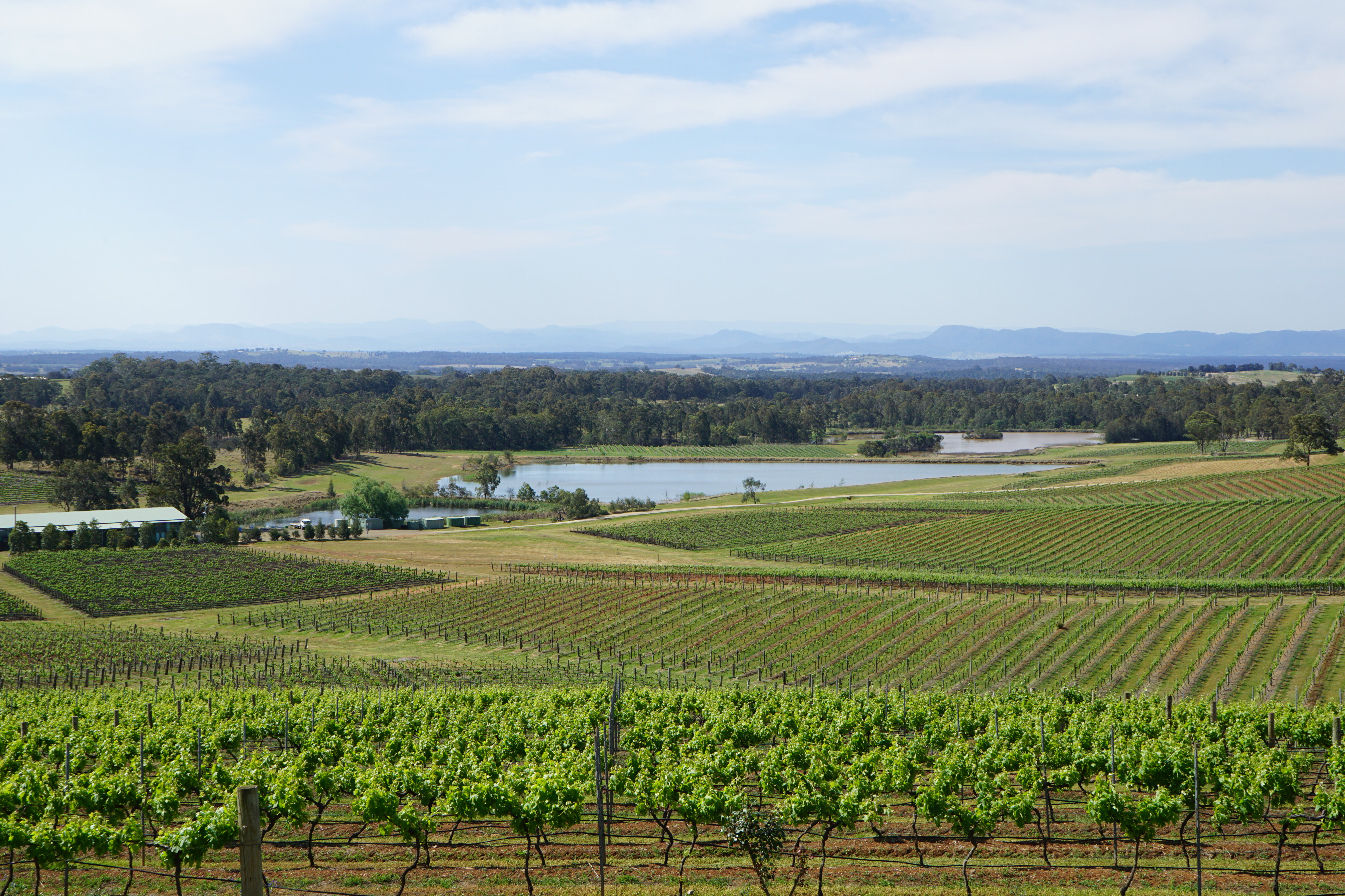 The Hunter Valley is the valley of the Hunter River in New South Wales, Australia.